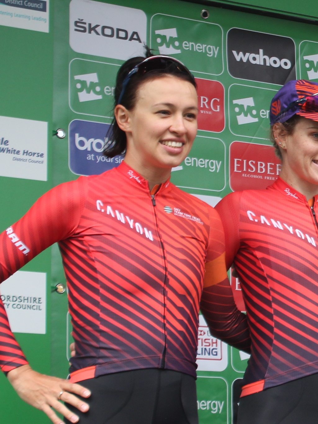 Kasia Niewiadoma at the 2019 Women's Tour where she came second on the General Classification and won the Queen of the Mountains competition.